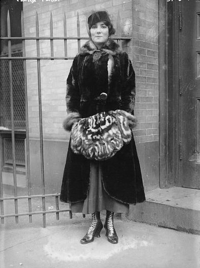 Flora Perini. Fur coat probably plugged sealskin or beaver fur, collar ?; muff Spilogale putorius (Spotted skunk) fur skin.